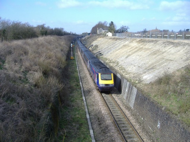 Kemble rail tunnel A Cheltenham to Paddington train emerges slowly from Kemble tunnel. Train speed restrictions are in force, due to major civil engineering works, following a land-slip, from the embankment on the right-hand side.